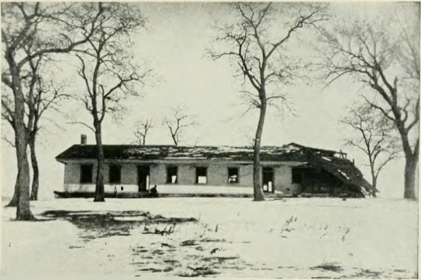 Illustration in History of Iowa From the Earliest Times to the Beginning of the Twentieth Century